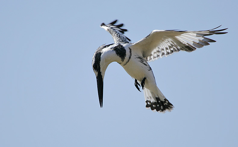 Image taken at Makasutu, The Gambia. This is a male bird (note the thick breast-band and a second thin breast-band).